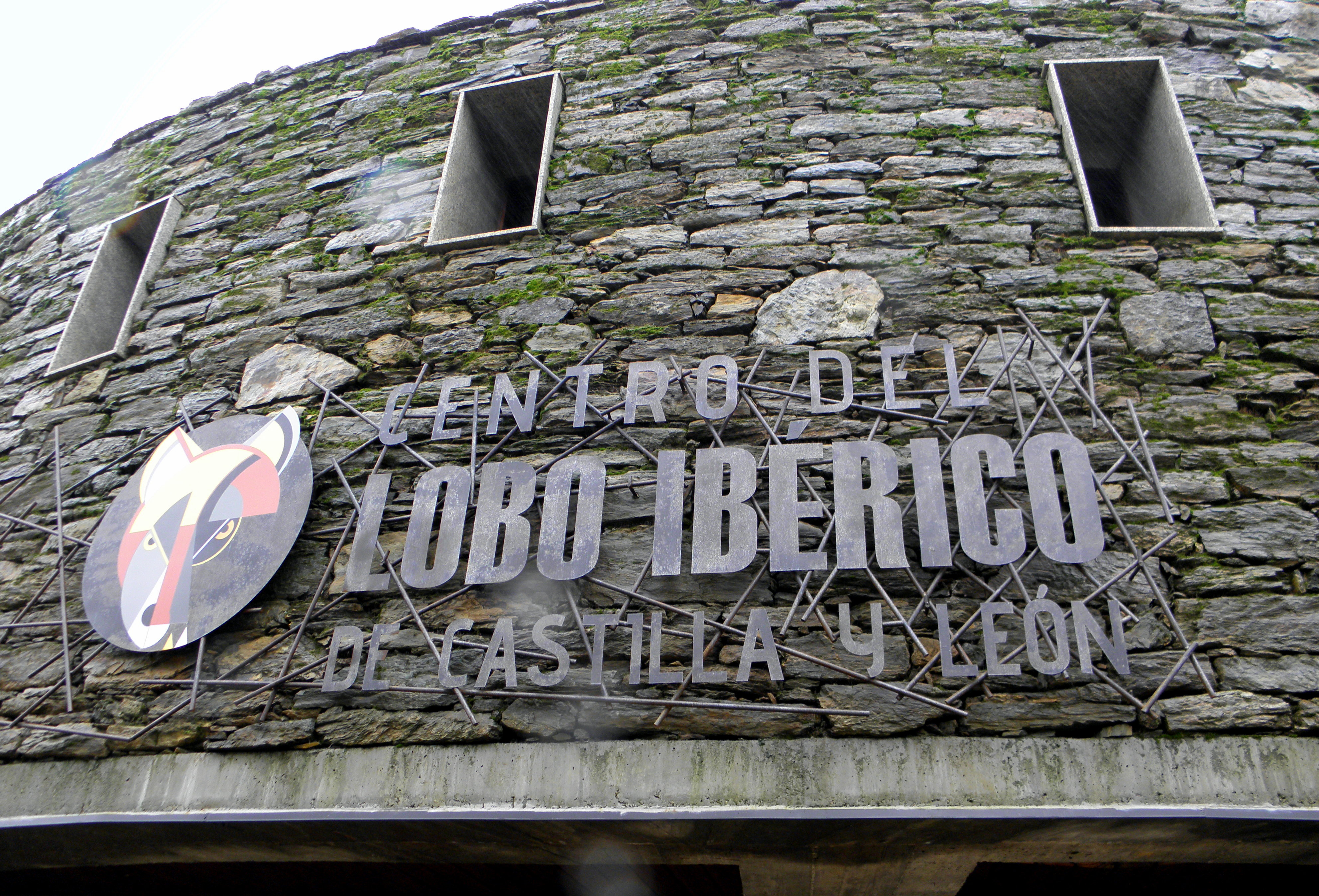 Center of the Iberian Wolf of Castile and León, in Robledo, Puebla de Sanabria, Castile and León, Spain.